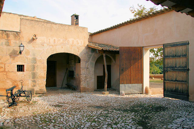 Patio of the estate Son Pacs, at Palma, Majorca